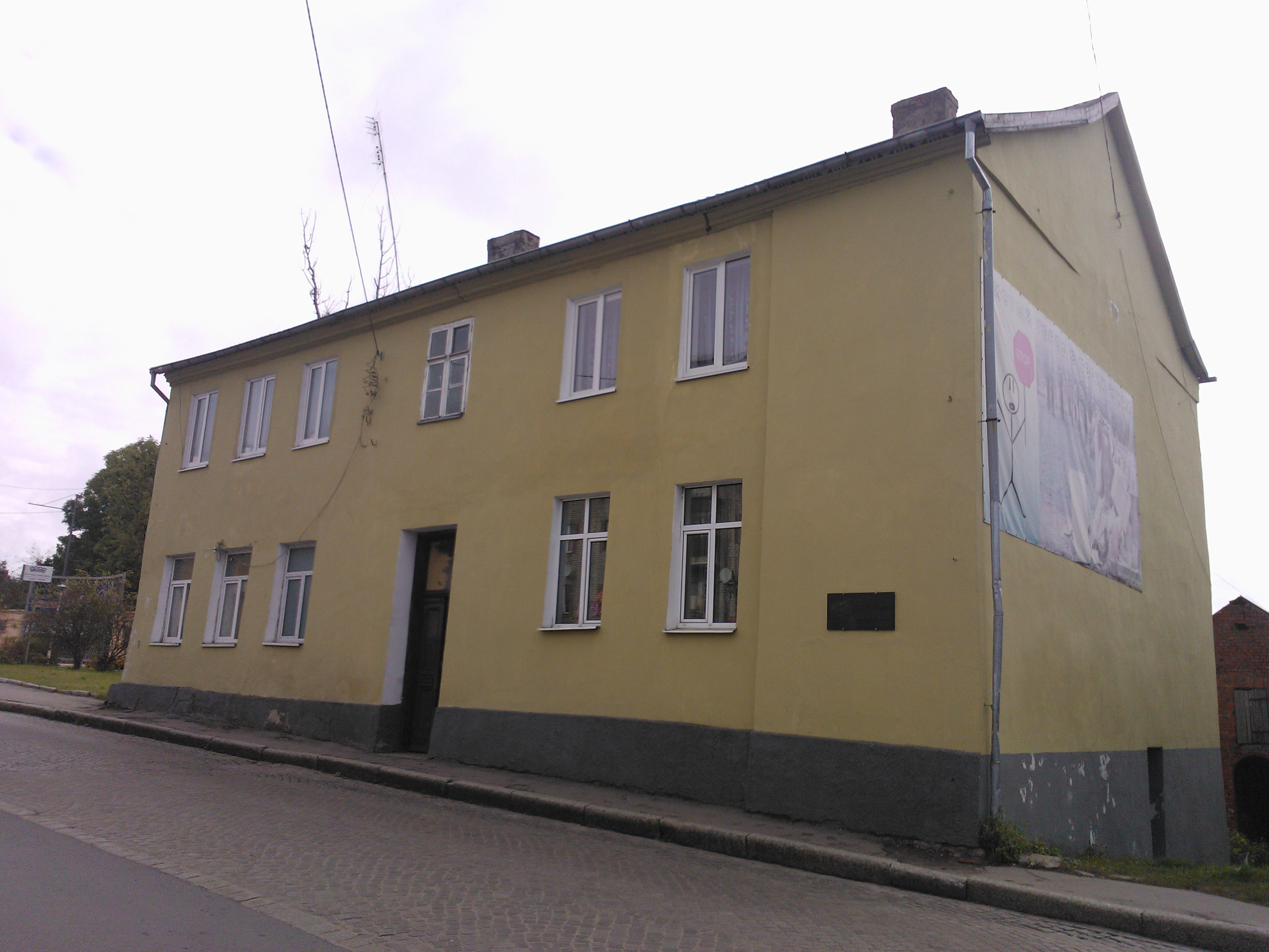 The house where Napoleon stayed after the battle of Preussisch-Eylau (Battle of Eylau) in 1807